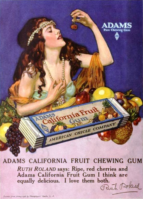 Adams California Fruit Chewing Gum ad painted from a photograph of Ruth Roland, page 84 of the September 1919 Shadowlands.